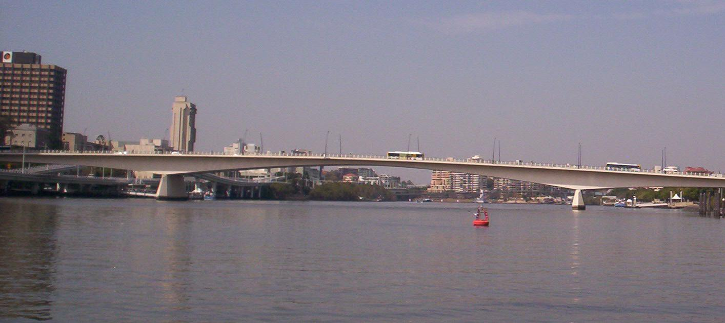 Victoria Bridge in Brisbane, Queensland, Australia